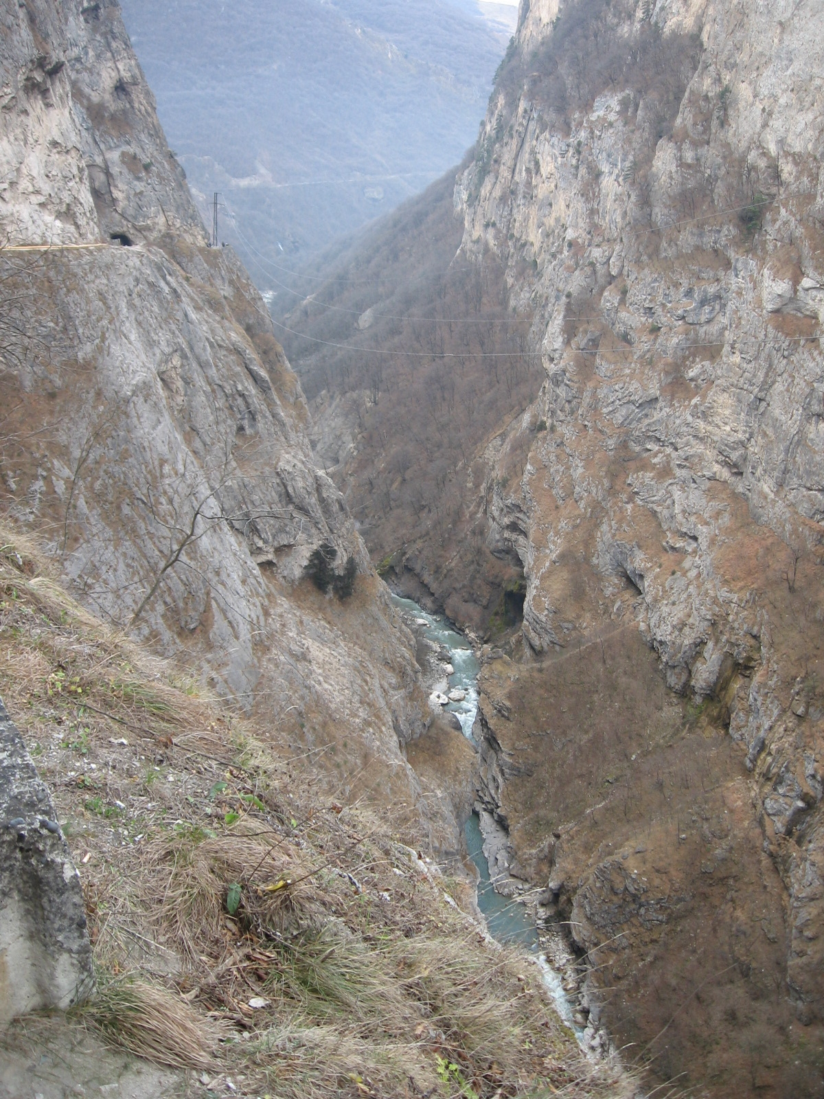 Cherek-river in Kabardino-Balkaria (Russian Fedearation)